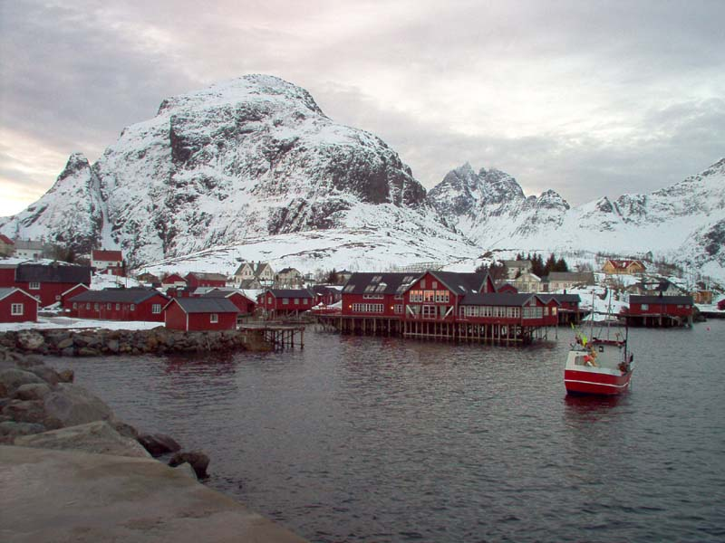 The town of Å in Norway